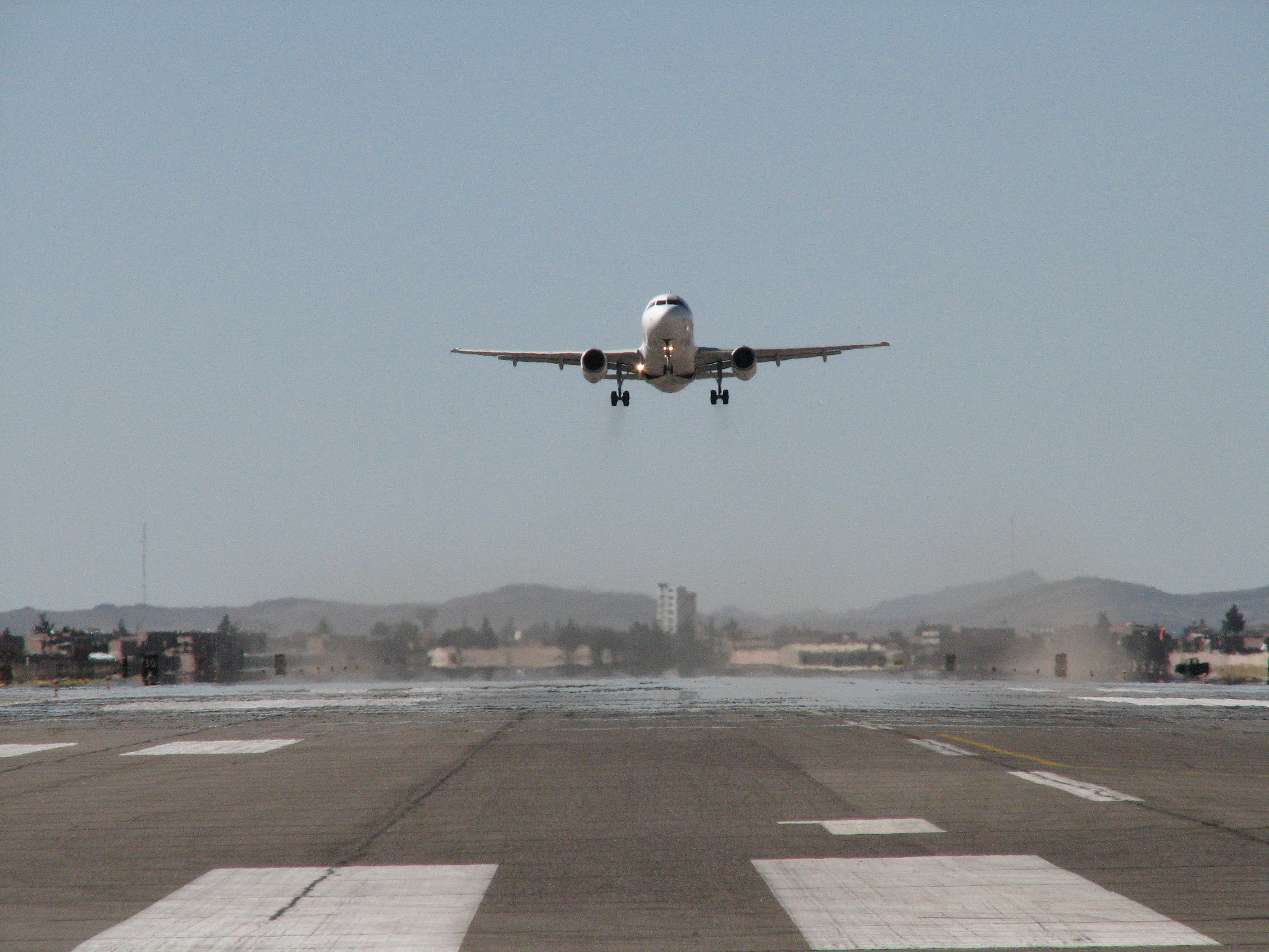 take off